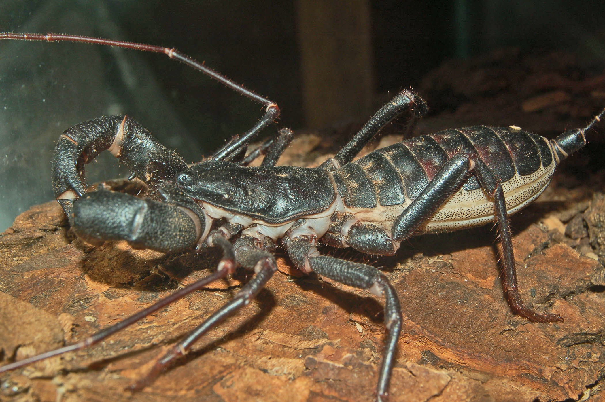 Picture taken by Justin Overholt of pet male whip scorpion.